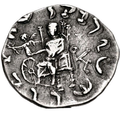 Menander II Zeus and wheel reverse